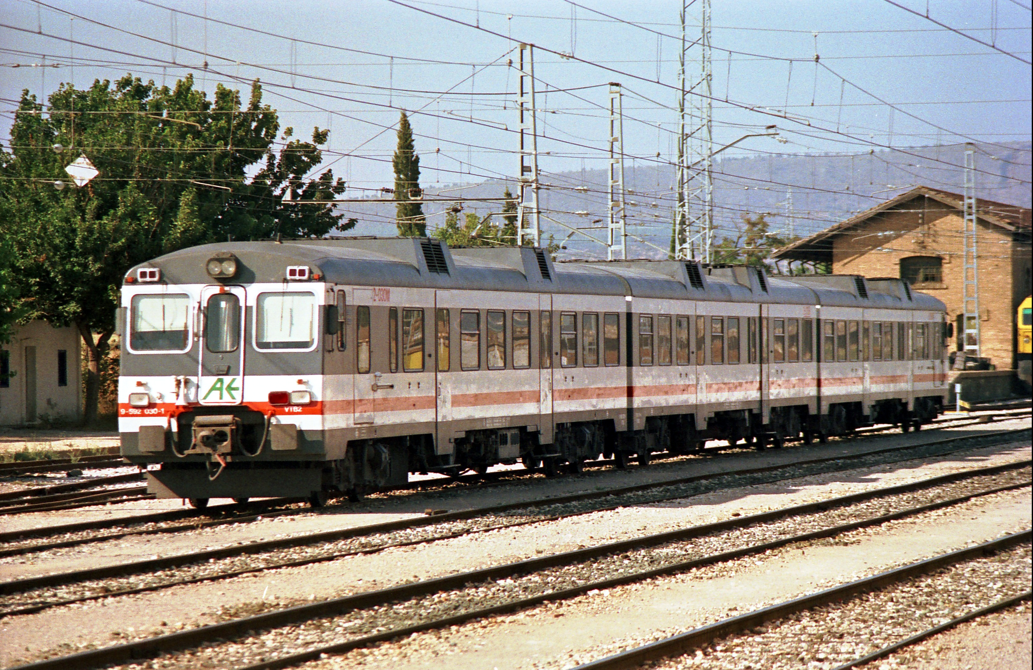 Renfe class 592 in Bobadilla train station